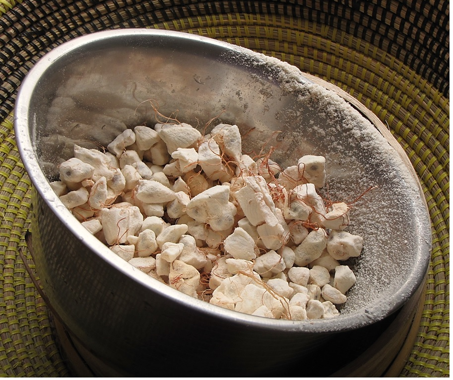 The fruit pulp from the fruit of the baobab Adansonia digitata tree, used to make baobab juice. Opaque, pale pinkish white with darker pinkish fibers visible. Very lightweight - quite similar to a freeze-dried condition - and crumbles easily (the fruit pulp powder is visible on the sides of the bowl). When soaked in water, the fruit pulp quickly dissolves, exposing clusters of brown seeds and easily separates from the fibers. The seeds and fibers are then strained out with a fine sieve, leaving an opaque, pale pinkish-white liquid comprised of the re-constituted fruit pulp. Very tart, high in vitamin C, it is usually served with some sort of added sweetener, usually sugar.